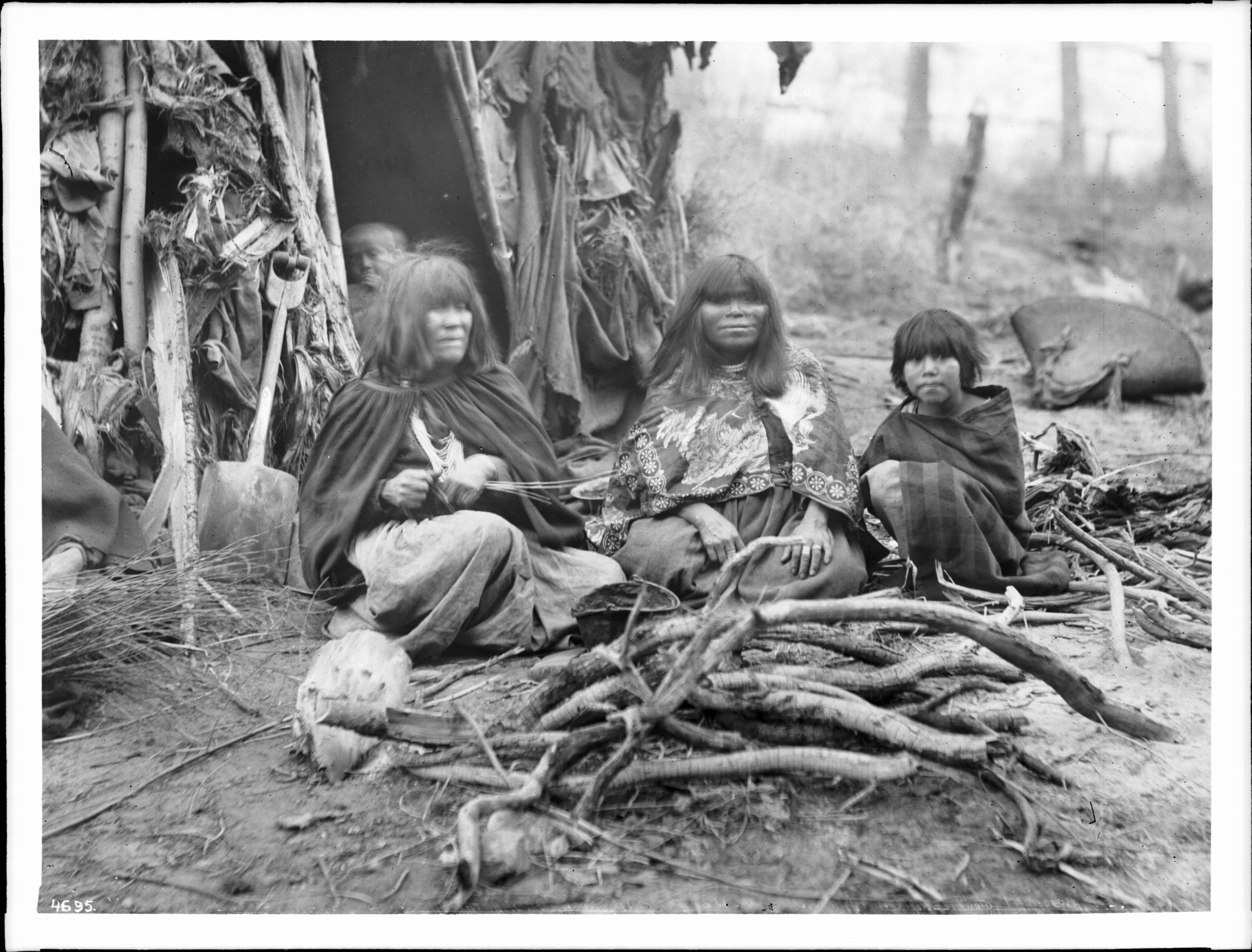 Two Havasupai Indian women basket makers, ca.1900 Photograph of two Havasupai Indian women basket makers, ca.1900. The women and a child sit on the ground in front of a house made of branches. They wear long dresses with shawls over their shoulders. They sit among firewood. A child peers out of the entry of the dwelling, while a shovel stands against the outside wall at left. A "kathak", a large conical basket, lays on the ground at right. Another person is partially visible at far left. Call number: CHS-4695 Photographer: James, George Wharton Filename: CHS-4695 Coverage date: circa 1900 Part of collection: California Historical Society Collection, 1860-1960 Format: glass plate negatives Type: images Part of subcollection: Title Insurance and Trust, and C.C. Pierce Photography Collection, 1860-1960 Repository name: USC Libraries Special Collections Accession number: 4695 Microfiche number: 1-167- Archival file: chs_Volume98/CHS-4695.tiff Repository address: Doheny Memorial Library, Los Angeles, CA 90089-0189 Geographic subject (country): USA Format (aacr2): 3 photographs : glass photonegative, photoprint, b&w ; 17 x 22 cm. Rights: Digitally reproduced by the USC Digital Library; From the California Historical Society Collection at the University of Southern California Subject (adlf): tribal areas Project: USC Repository Identifying number: plate no: James-654 Contributing entity: California Historical Society Date created: circa 1900 Publisher (of the digital version): University of Southern California. Libraries Format (aat): photographic prints; photographs Geographic subject (state): Arizona Legacy record ID: chs-m17011; USC-1-1-1-13517 Access conditions: Send requests to address or e-mail given. Phone (213) 821-2366; fax (213) 740-2343. Subject (file heading): Indians -- Havasupai Subject (lcsh): Indians of North America; Havasupai Indians; Women Subject: Havasupai Indians